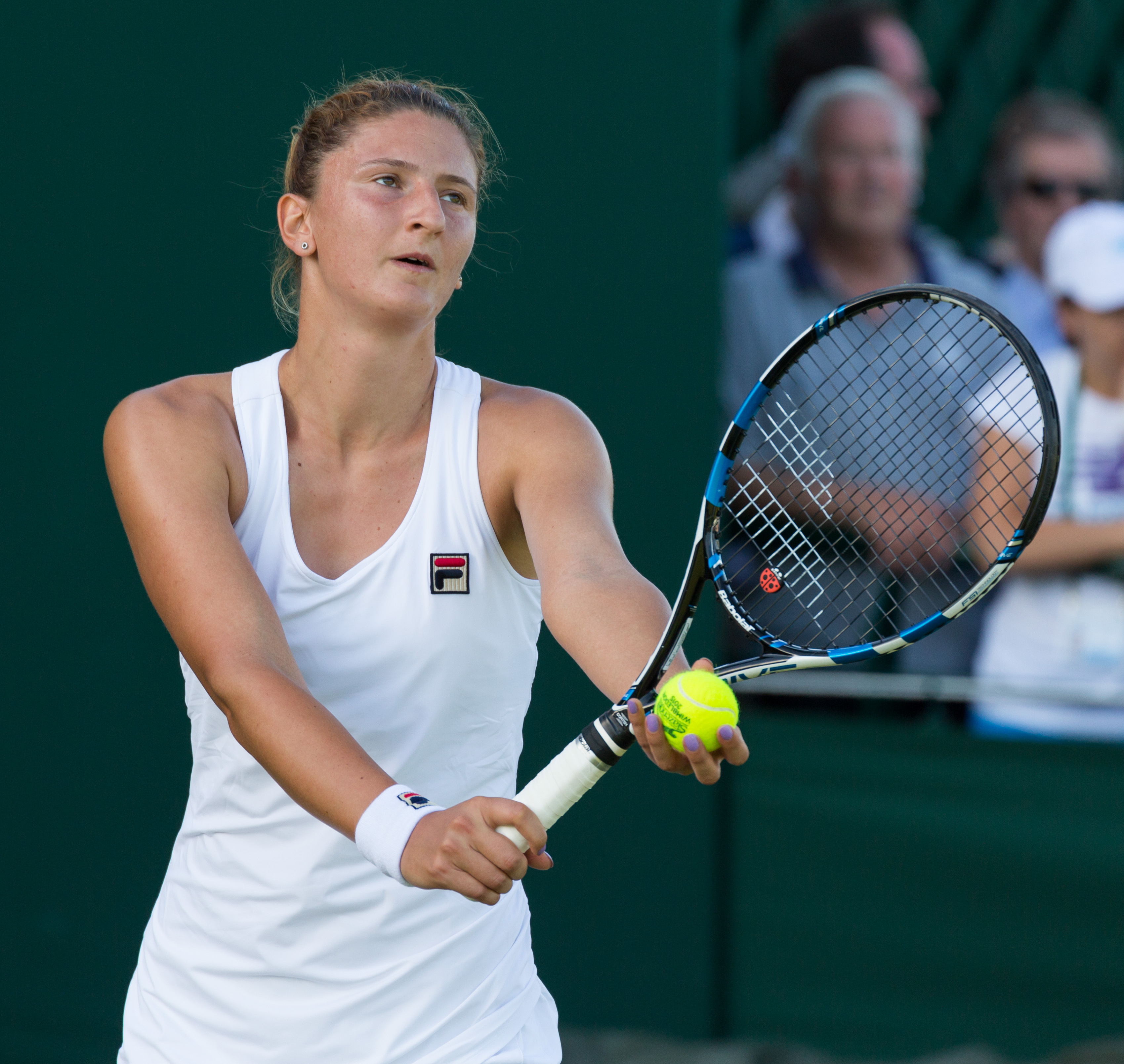 Irina-Camelia Begu competing in the first round of the 2015 Wimbledon Championships.